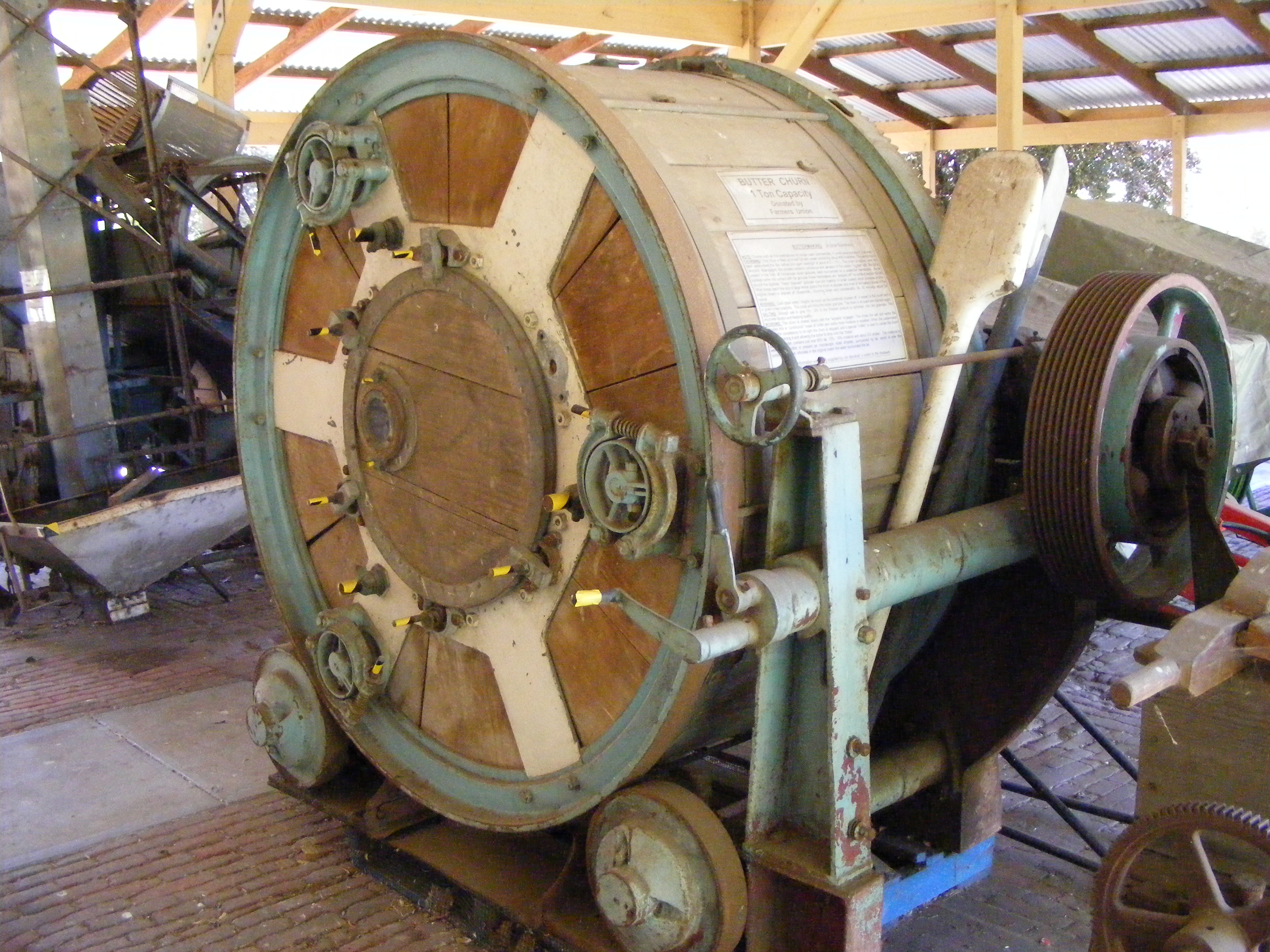 Commercial 1 Ton capacity butter churn, ex "Farmers Union", Adelaide, South Australia. On display at Sunnybrae farm, Regency Road, Adelaide, South Australia